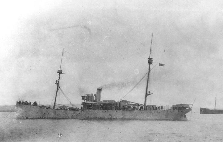 USS Hannibal (AG-1) at Brest, France, while serving as tender to U.S. Navy submarine chasers at Plymouth, England.